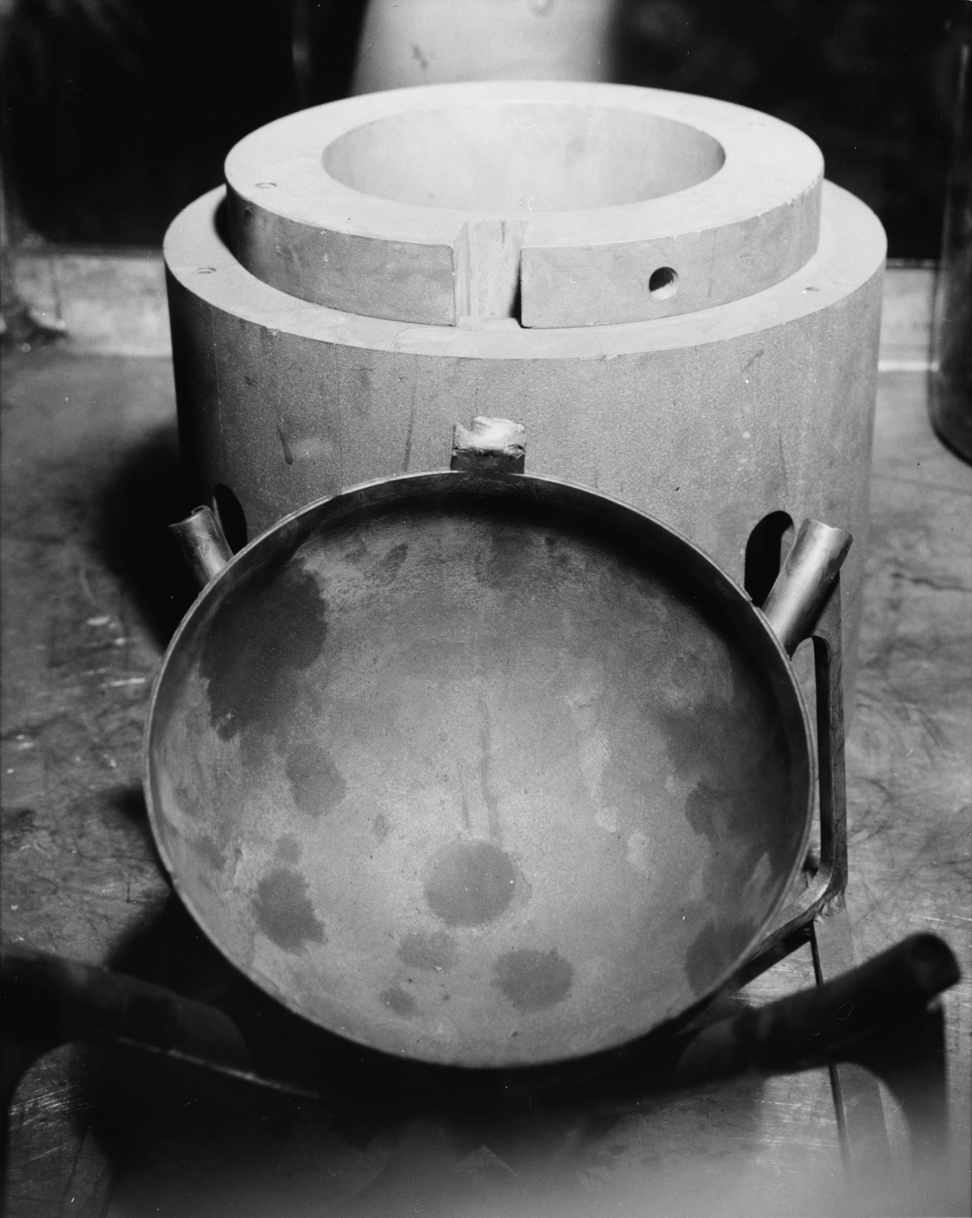 Rocky Flats Plant, Plutonium Fabrication, Central section of Plant View of a mold for precision casting. The mold was used in foundry operations that cast plutonium either as ingots suitable for rolling and further wrought processing or into shapes amenable to direct machining operations.